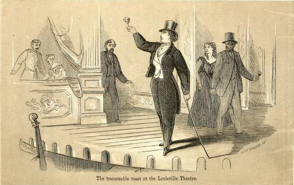 Pauline Cushman drinking a toast to Jefferson Davis and the Confederacy on stage.